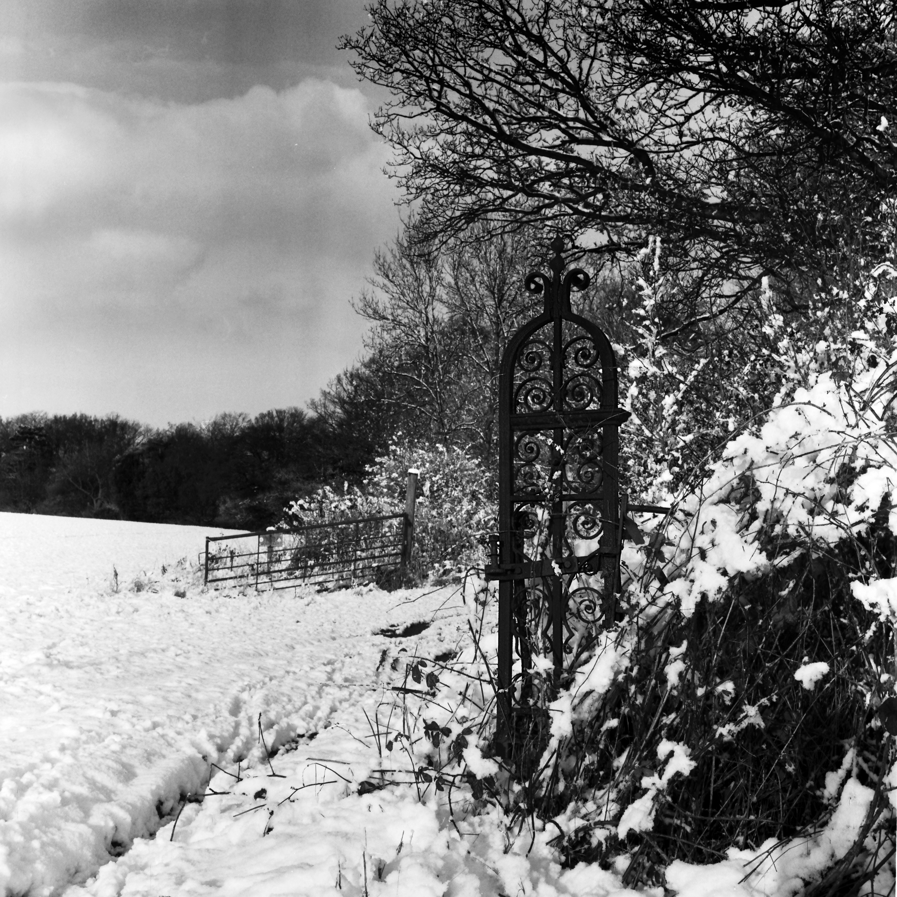 One of the two iron gateposts that once stood at the entrance to the great house of Pyrgo.